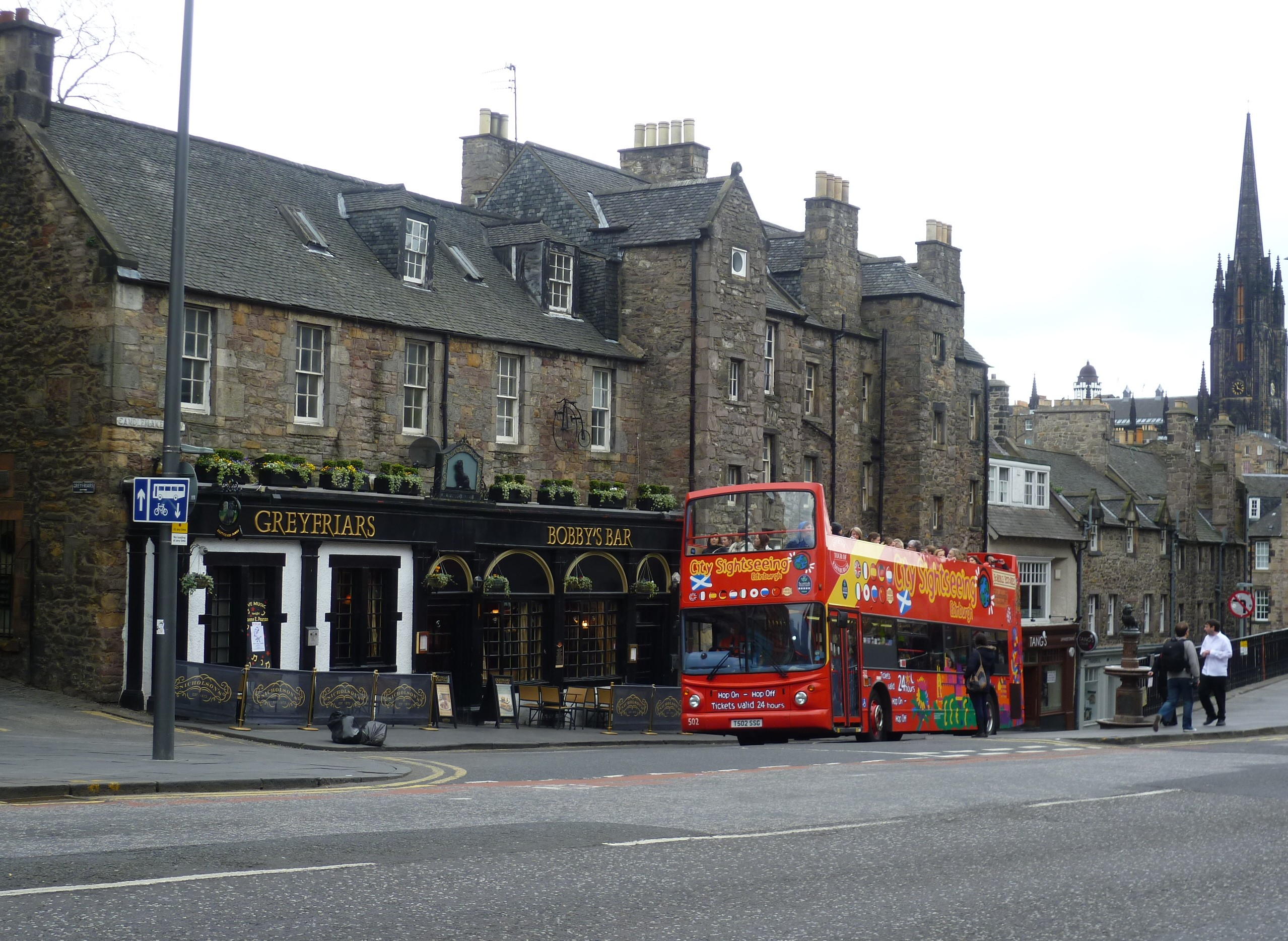 Two men can be seen passing the statue of Geryfriars Bobby, lower right. The entrance to Greyfriars Kirkyard is immediately to the left of Greyfriars Bobby's Bar.